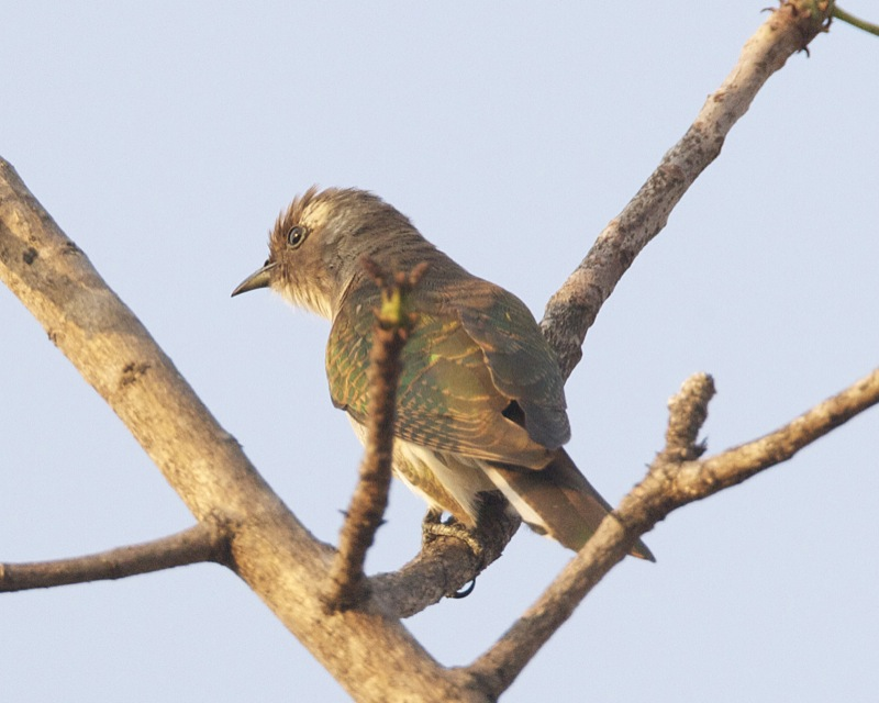 A female Klaas's Cuckoo in the Kwa Madwala Game Reserve, Mpumalanga, South Africa, on 10th. October 2009 Range map: [1]